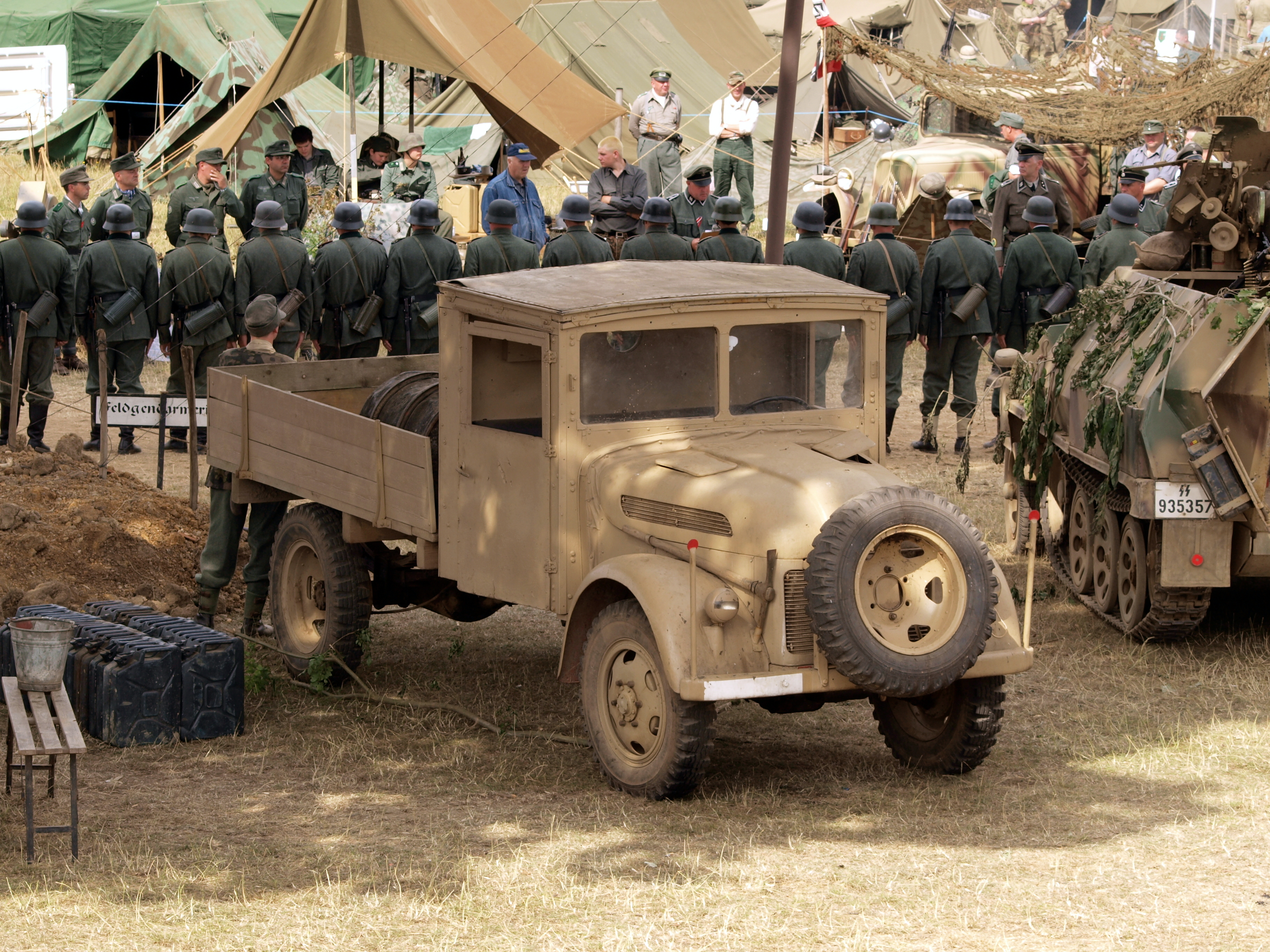 Austrian Steyr 1500A